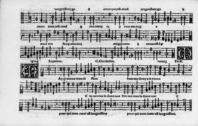 Two parts of Cordeilles's chanson "May gratieux reverdissant in Moderne's "Parangon des chansons", 6e livre (1540).